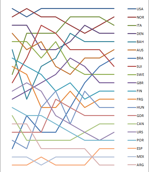 1968 Olympic Sailing Daily Standings Star